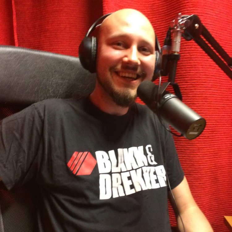 Morten Galåsen in Moderne Media-studio